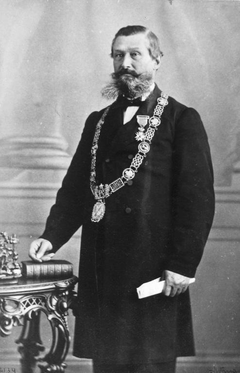 Photograph of J. L. Beaudry, Mayor of Montreal, Montreal, QC, 1865, by William Notman (1826-1891), 1865. Silver salts on paper mounted on paper, Albumen process, 8.5 x 5.6 cm